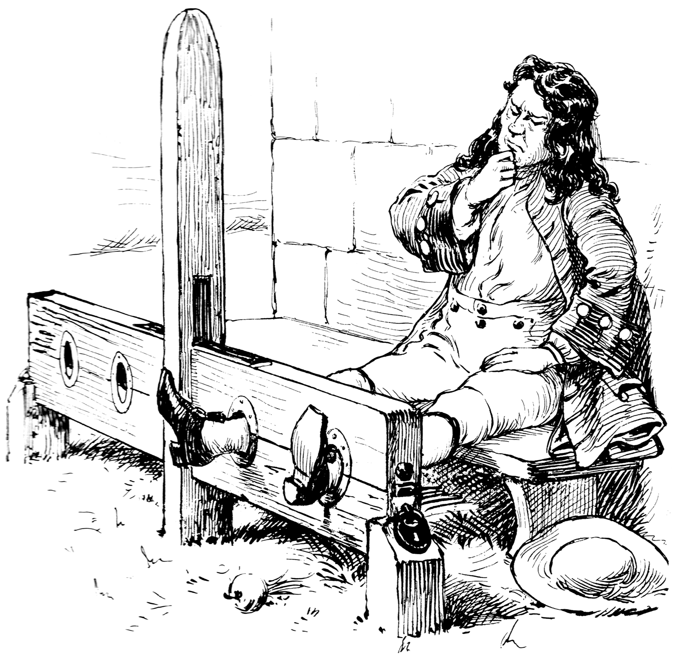 Line art drawing of stocks.